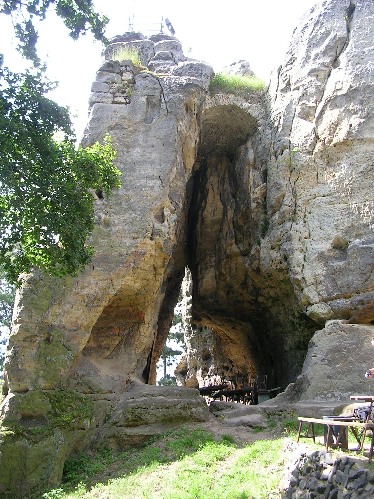 Valečov Castle. (Boseň, Mladá Boleslav District, Central Bohemian Region, the Czech Republic.)